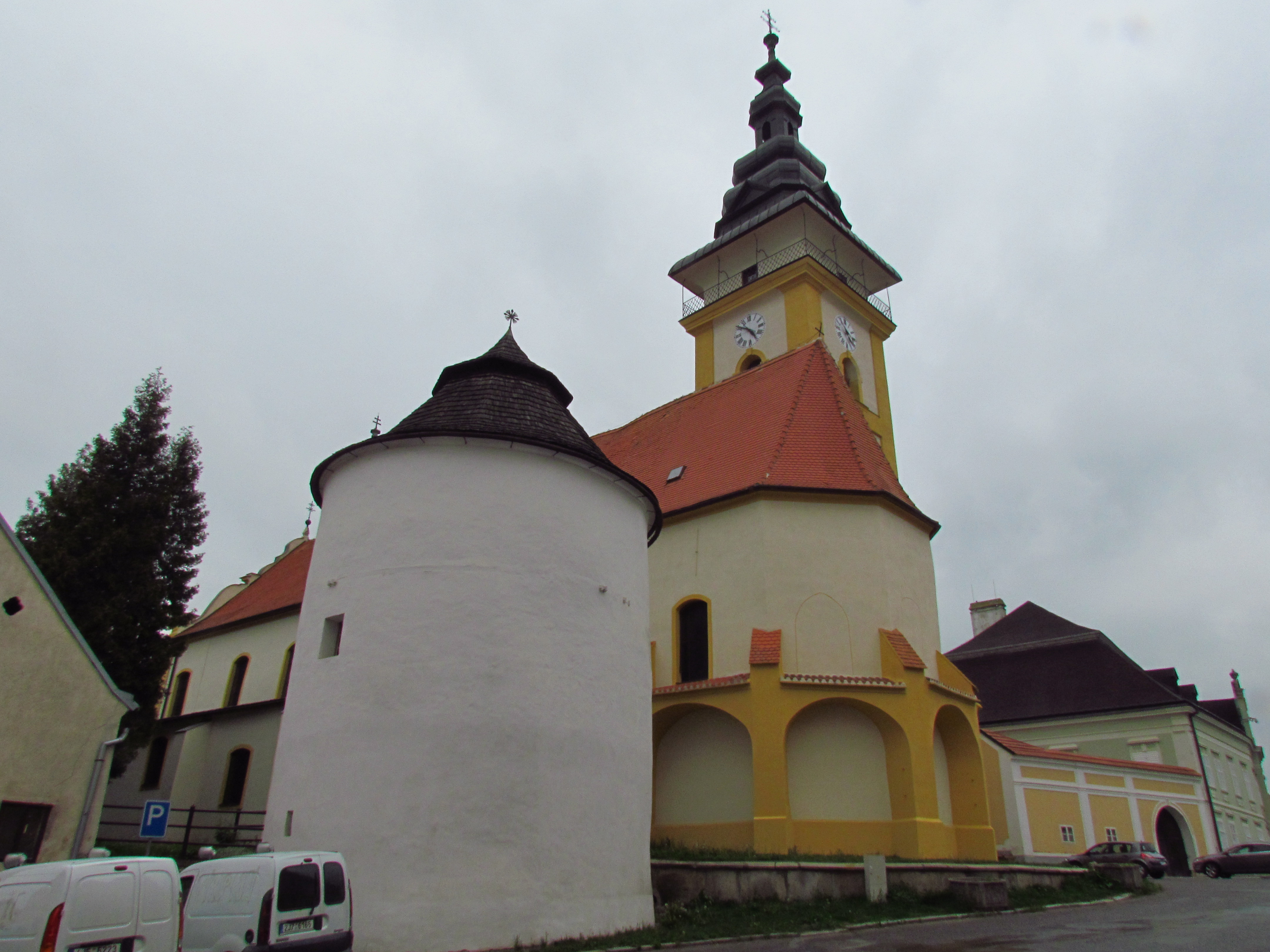 Area of Chapel of Saint Michael and Church of Saint Giles in Moravské Budějovice, Třebíč District.